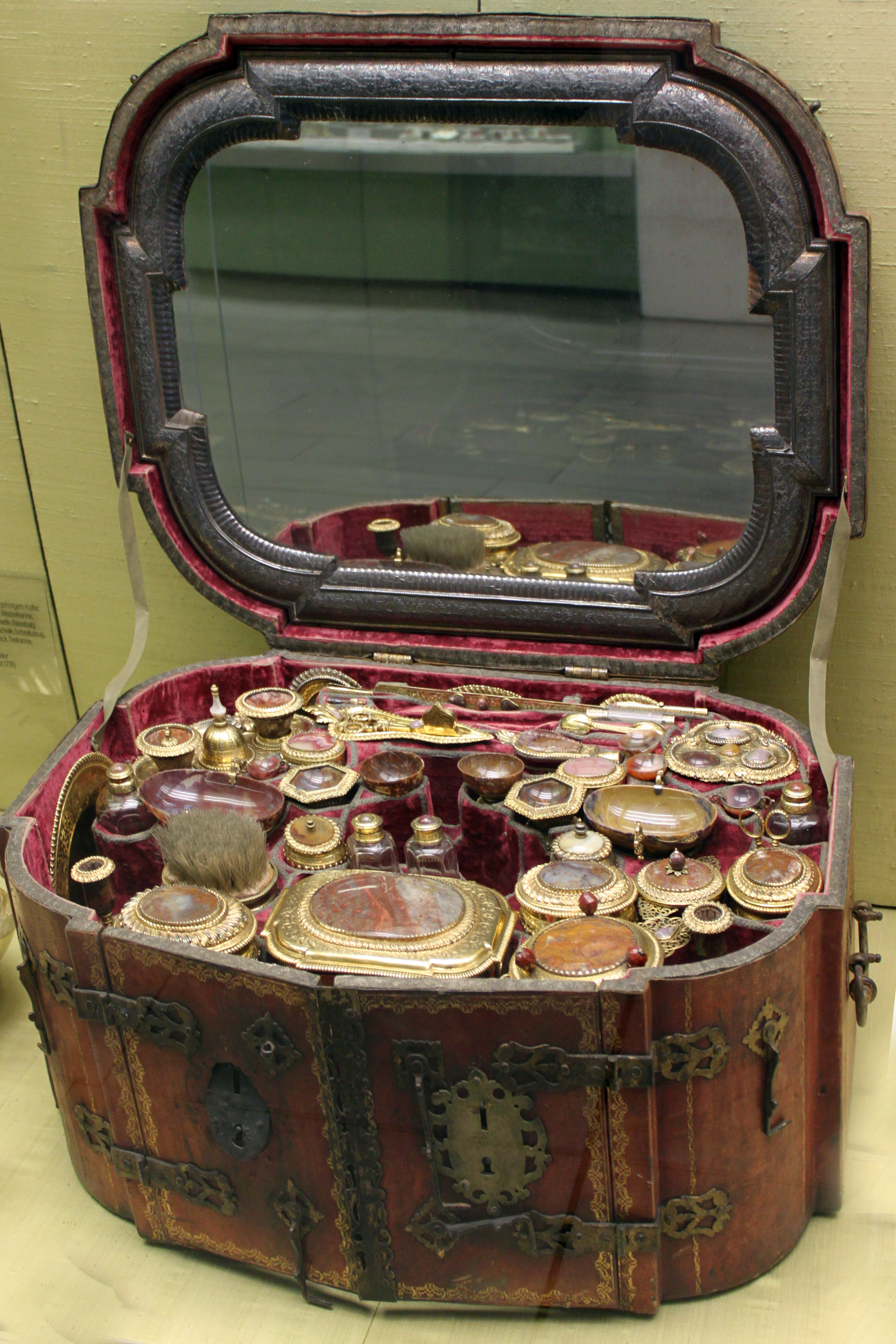 Tobias Baurs travelling toilet service, Augsburg, 1695; Germanic National Museum in Nuremberg